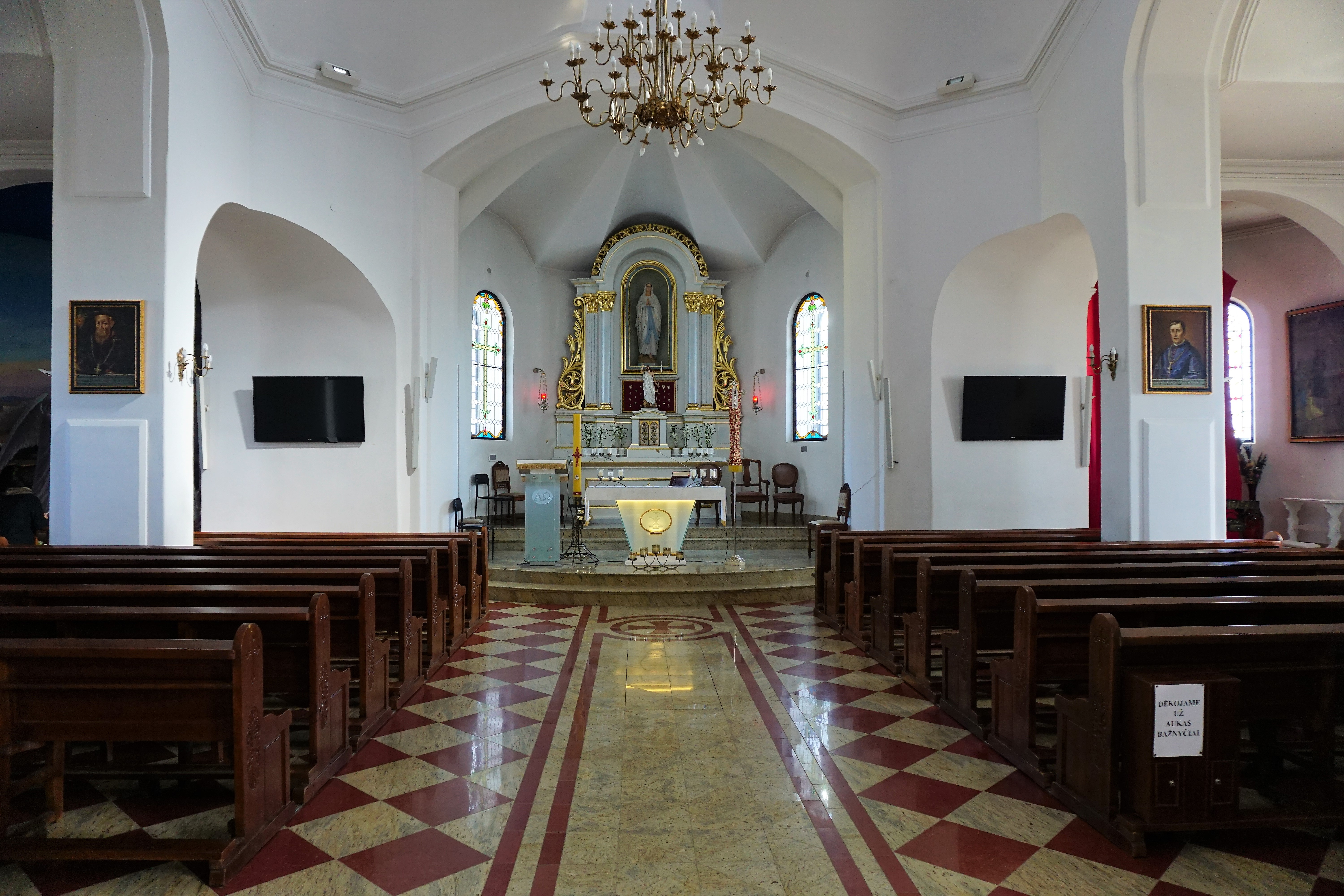 Interior of the Church of the Assumption of the Blessed Virgin Mary into Heaven, Telšiai